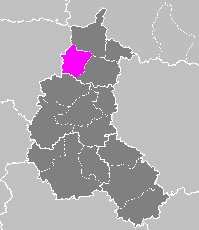 Maps of arrondissements and cantons of France: Arrondissement de Rethel.PNG